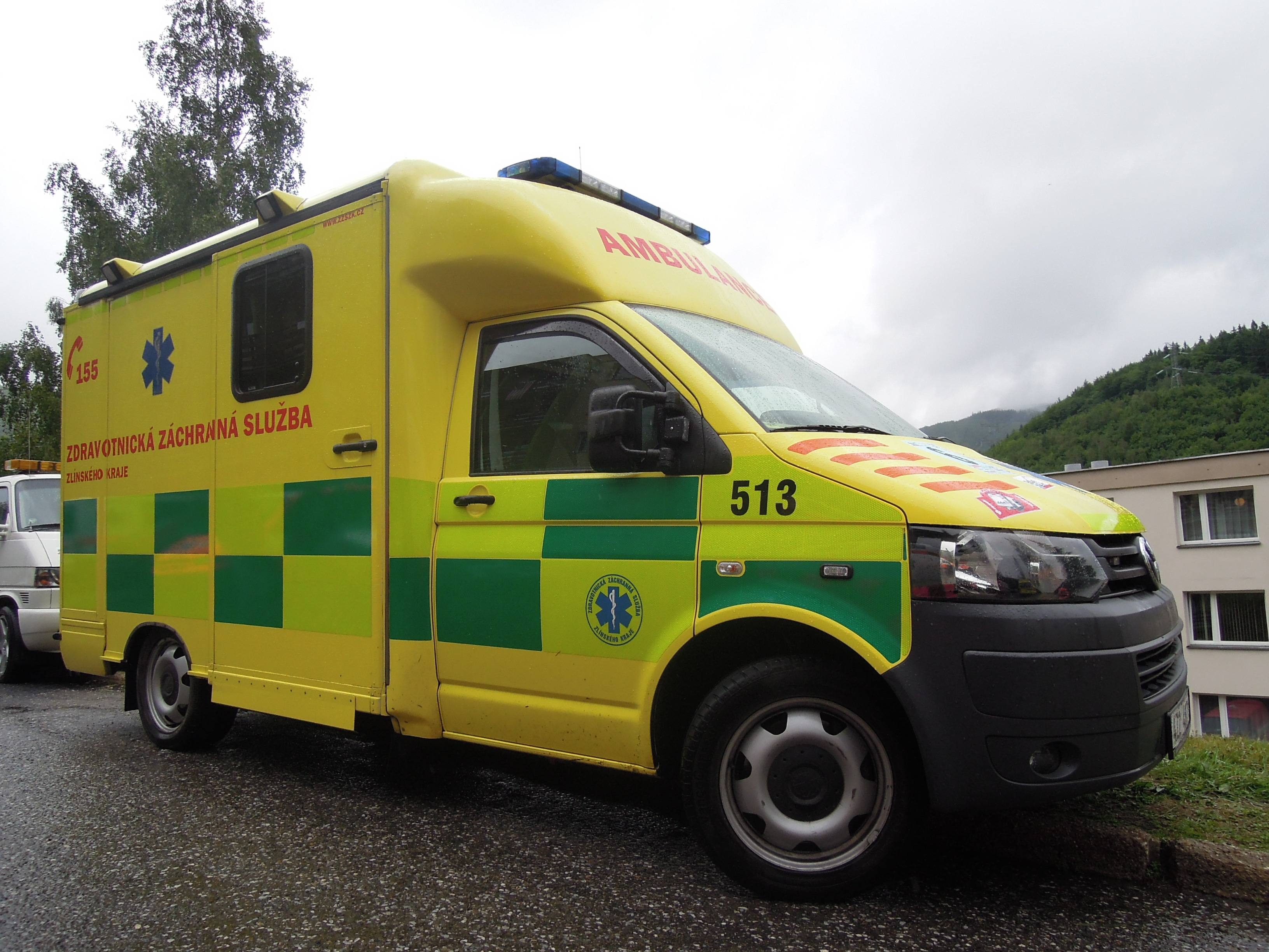 Volkswagen Transporter T5 Strobel ambulance of Zdravotnická záchranná služba Zlínského kraje. Photo was taken during the international competition Rallye Rejvíz 2012 in Kouty nad Desnou, Olomouc Region, Czech Republic